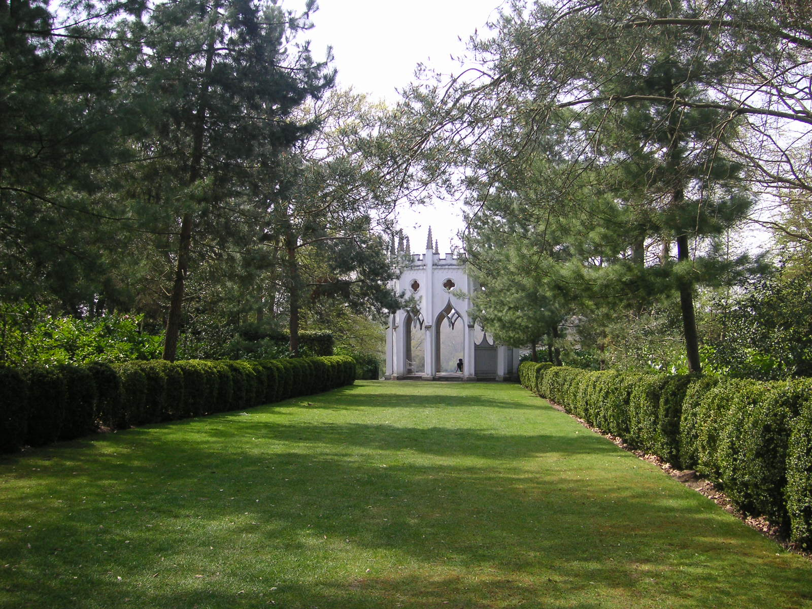 Painshill Park, Surrey, England. An 18th century landscape garden designed by Charles Hamilton MP. Vista towards the "Gothic Temple"